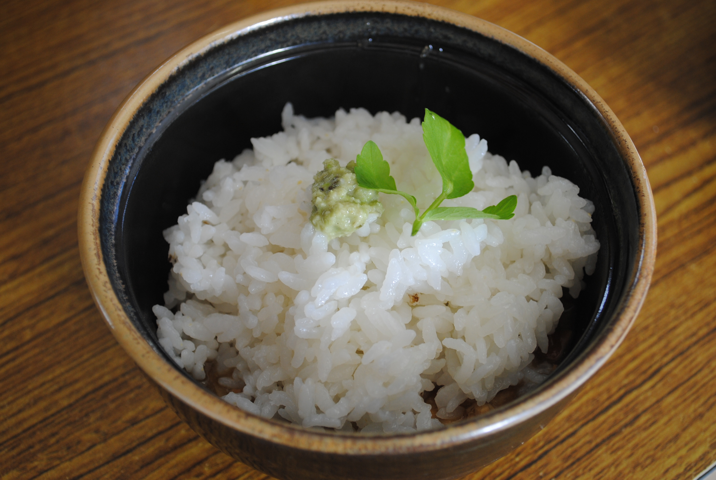 Uzume meshi is traditional cuisine in Hikimi town which uses wasabi. "Uzume" means "hiding something" and "meshi" means "bowll of rice" in Japanese. Wasabi must be hidden with originally dish.